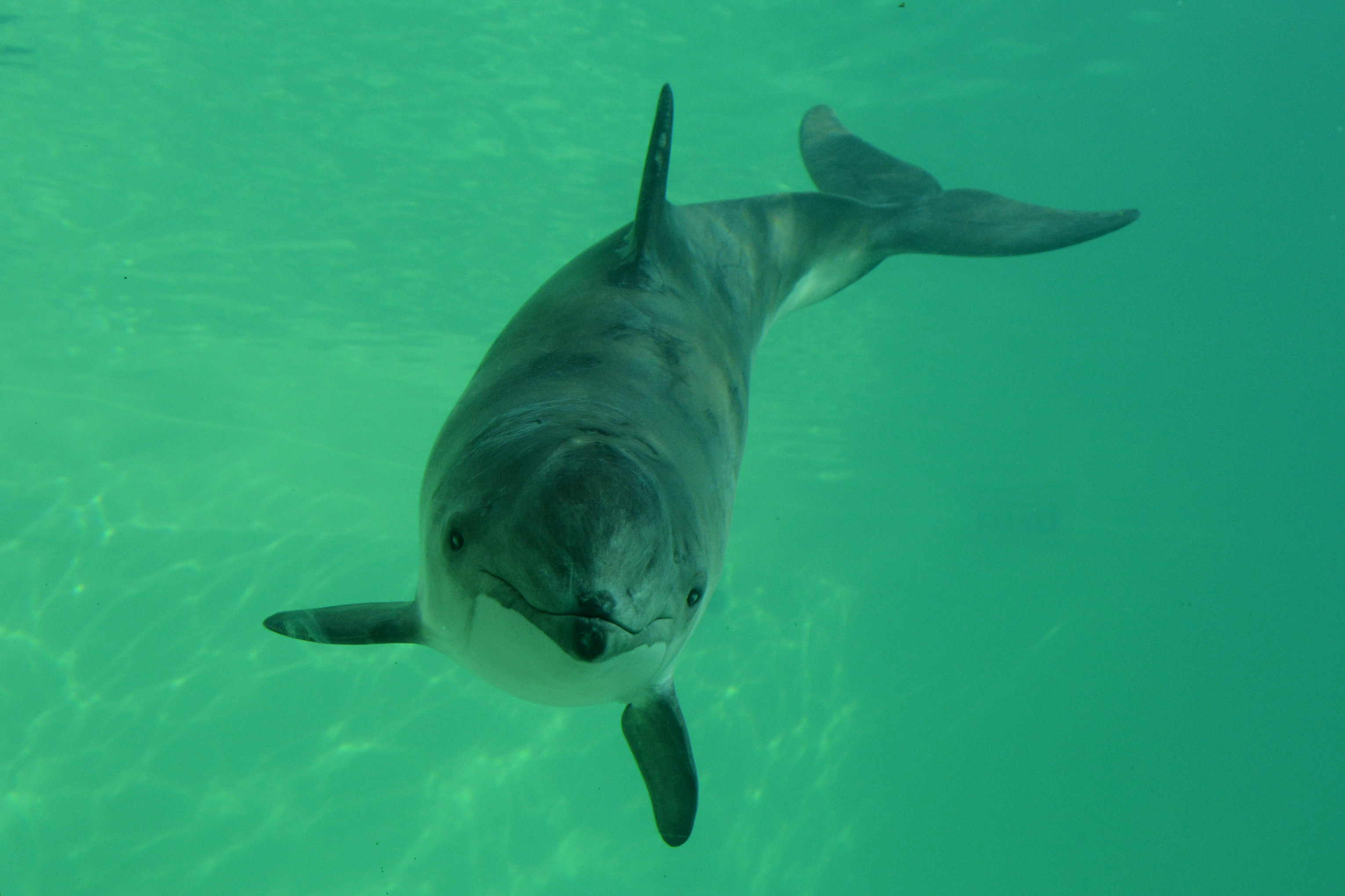 harbor porpoise Michael in 2015, Ecomare